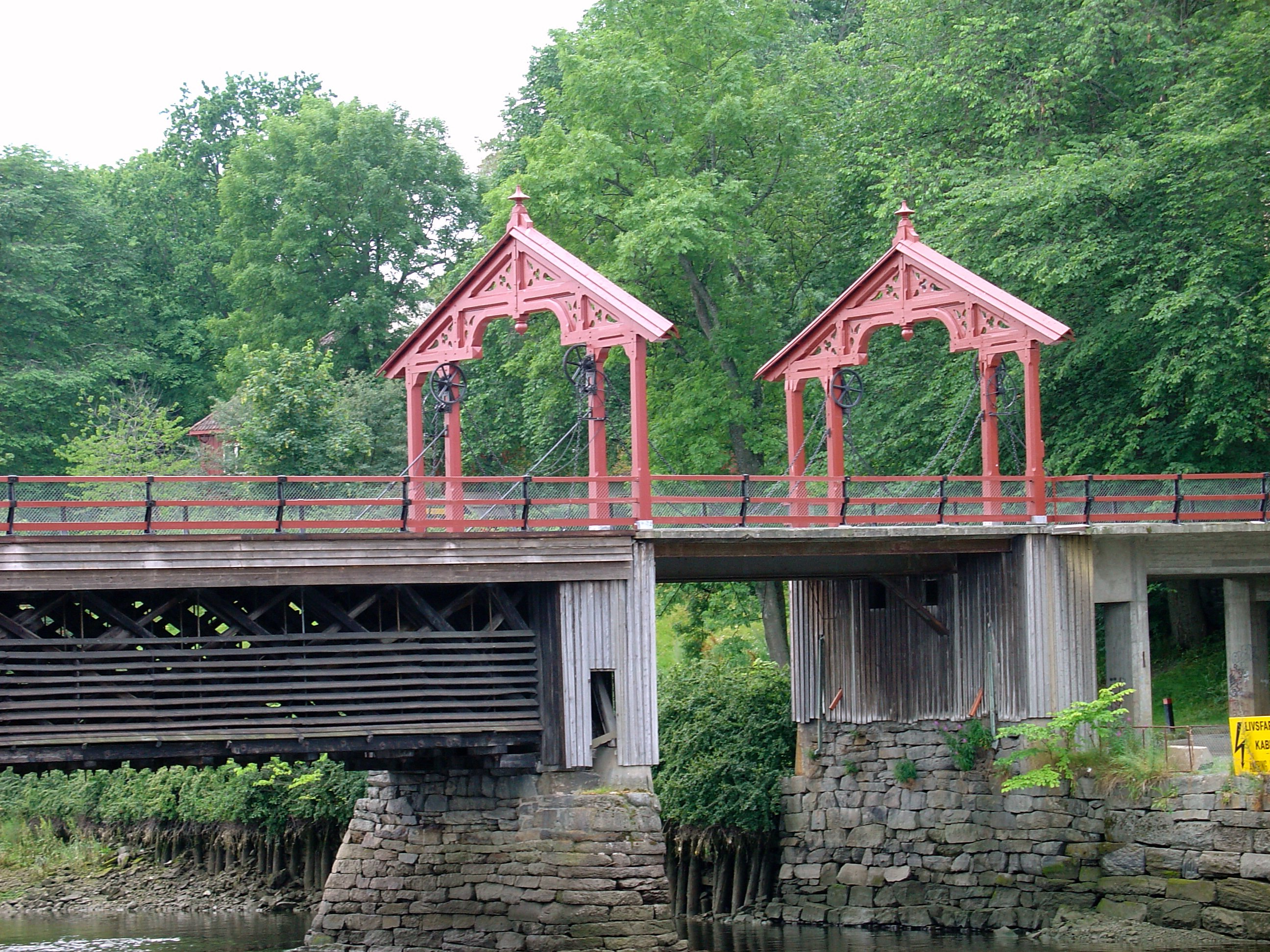 Gamle Bybru or the Old Town Bridge, Trondheim, Norway